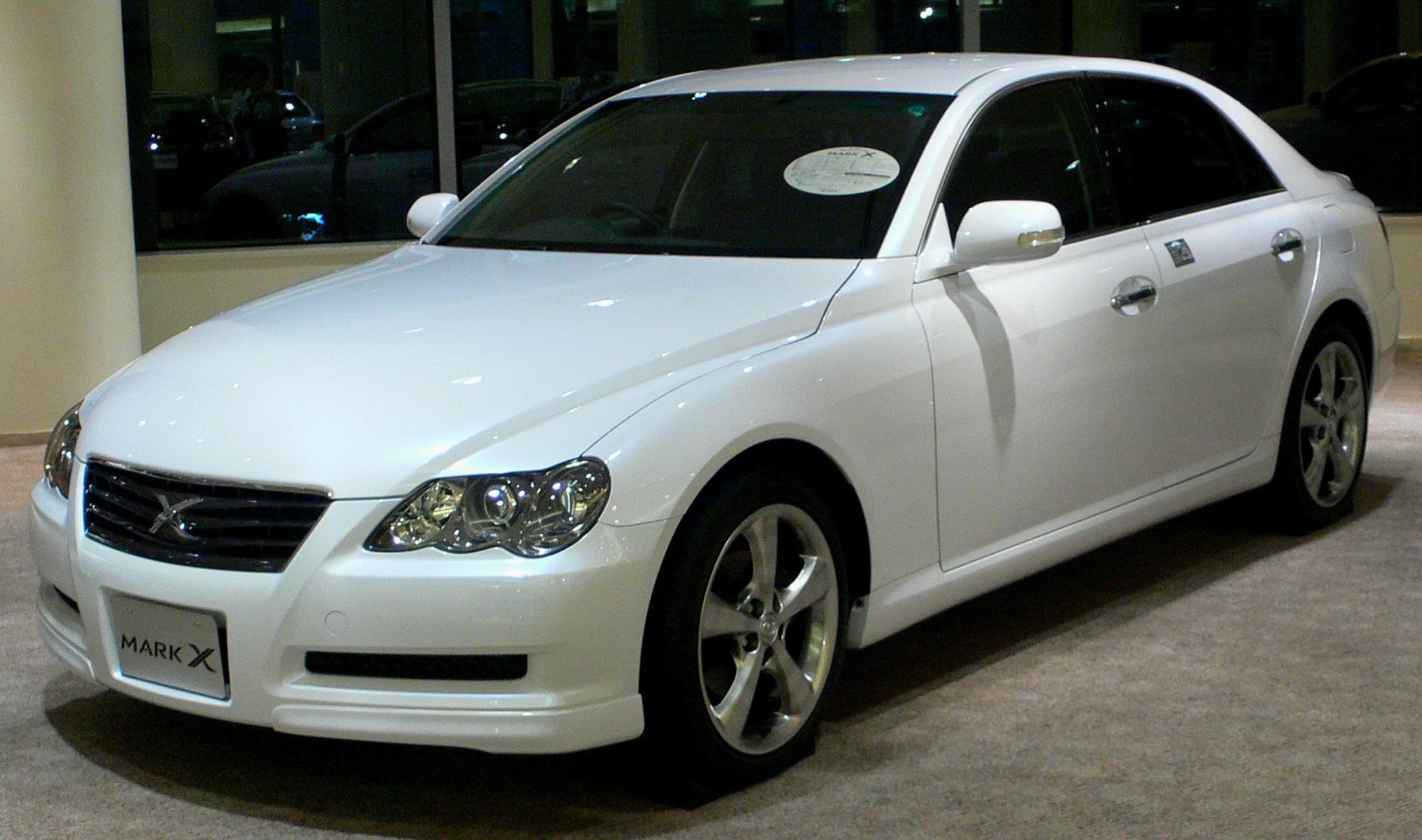 Toyota Mark X (2006 -) photographed in AMLUX